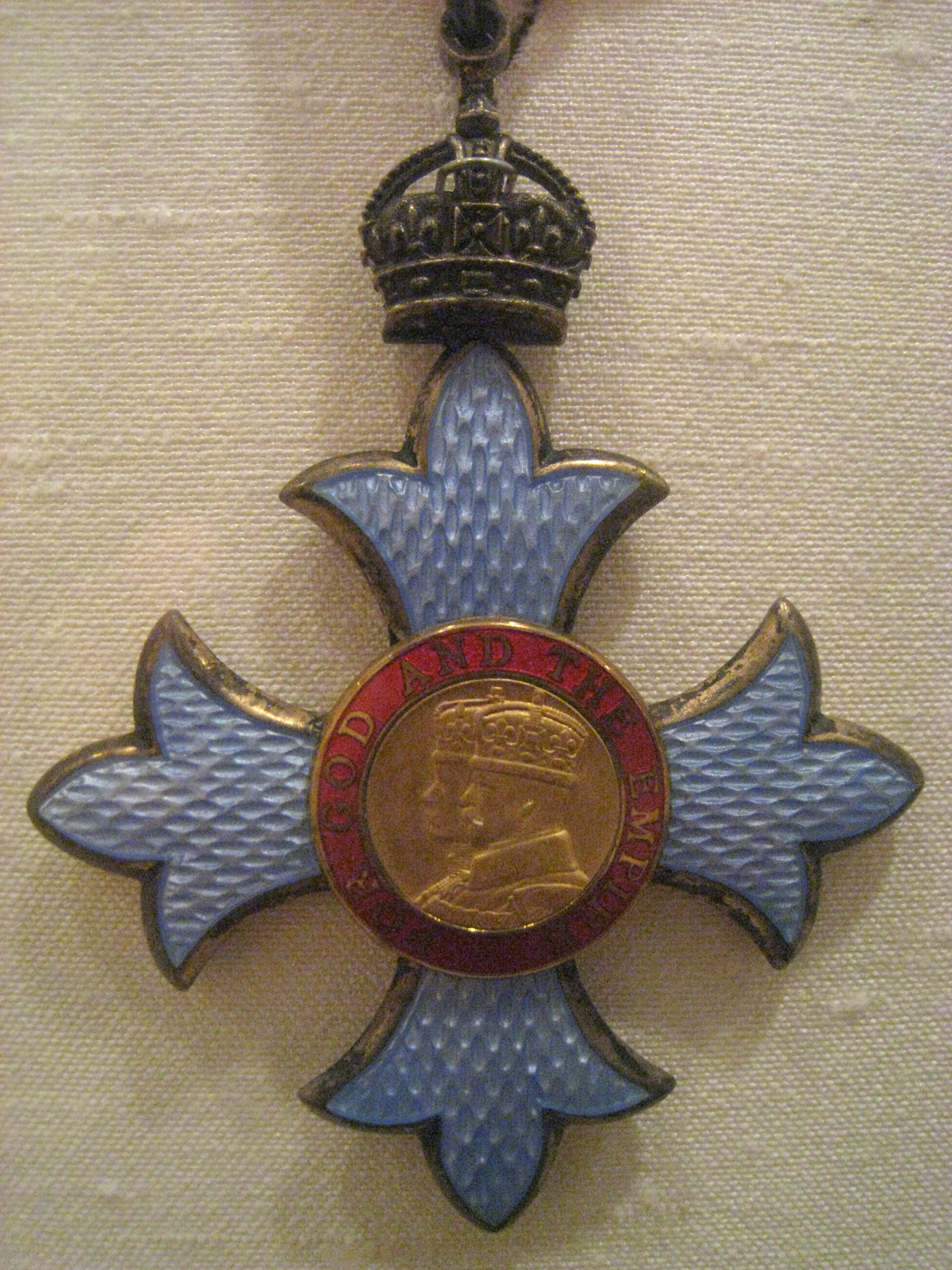 Order of the British Empire in the Grade of Commander (CBE). Presented to Ambassador Angier Biddle Duke, and now on display in the Washington Duke Inn, Durham, North Carolina, USA.